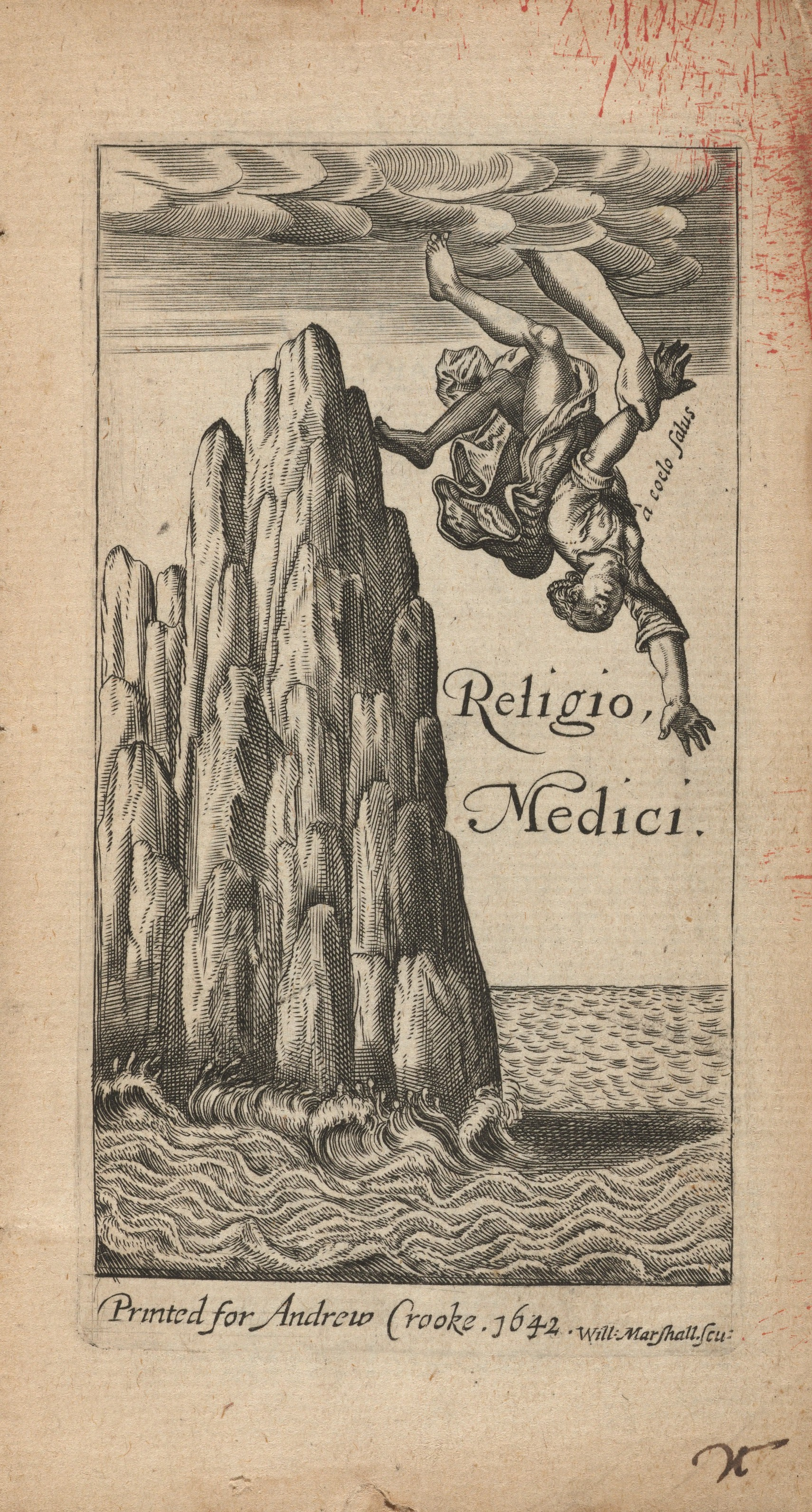 Frontispiece for Religio Medici, printed 1642 for Andrew Crooke, by Thomas Browne (1605-1682). From source: "An unauthorized edition, supposed to be the first of that date." *EC65 B8185R 1642, Houghton Library, Harvard University